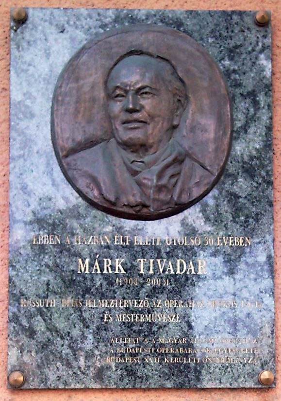 Tivadar Márk commemorative plaque with relief in Budapest District I, Fő Street No 25/a.